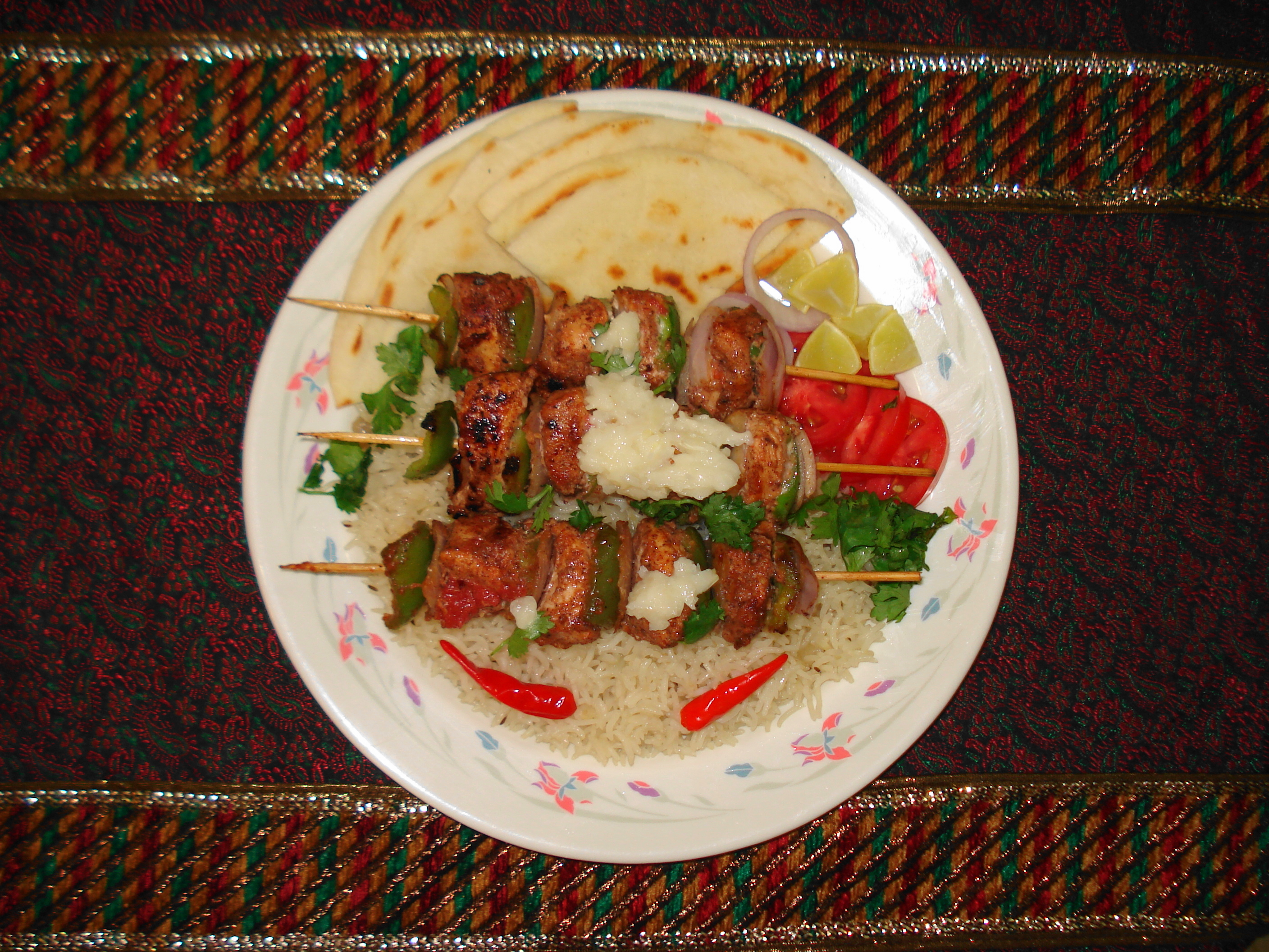 Shish tawook